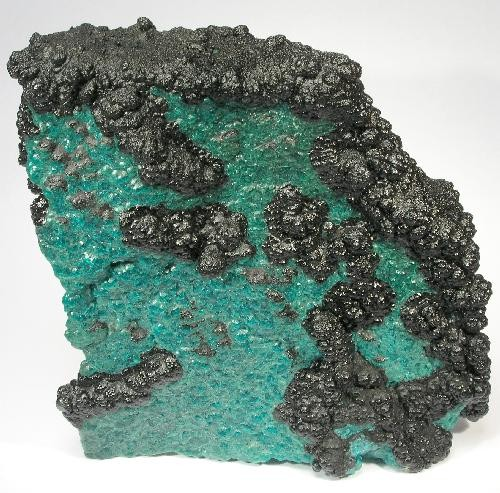 Chrysocolla, Heterogenite Locality: Kolwezi, Western area, Katanga Copper Crescent, Katanga (Shaba), Democratic Republic of Congo (Zaïre) (Locality at ) Size: 11 x 10.5 x 4.5 cm. First-rate LARGE plate of partially gemmy! blue-green botryoidal Chrysocolla coating a plate of botryoidal Heterogenite. The luster on both minerals is superb, and the pics cannot possibly do the exceptional aesthetics of this piece justice. Lustrous and well-balanced with a dynamite color contrast, this in excellent condition and is complete all the way around. Even the small base is healed, with new growth of Heterogenite on it.